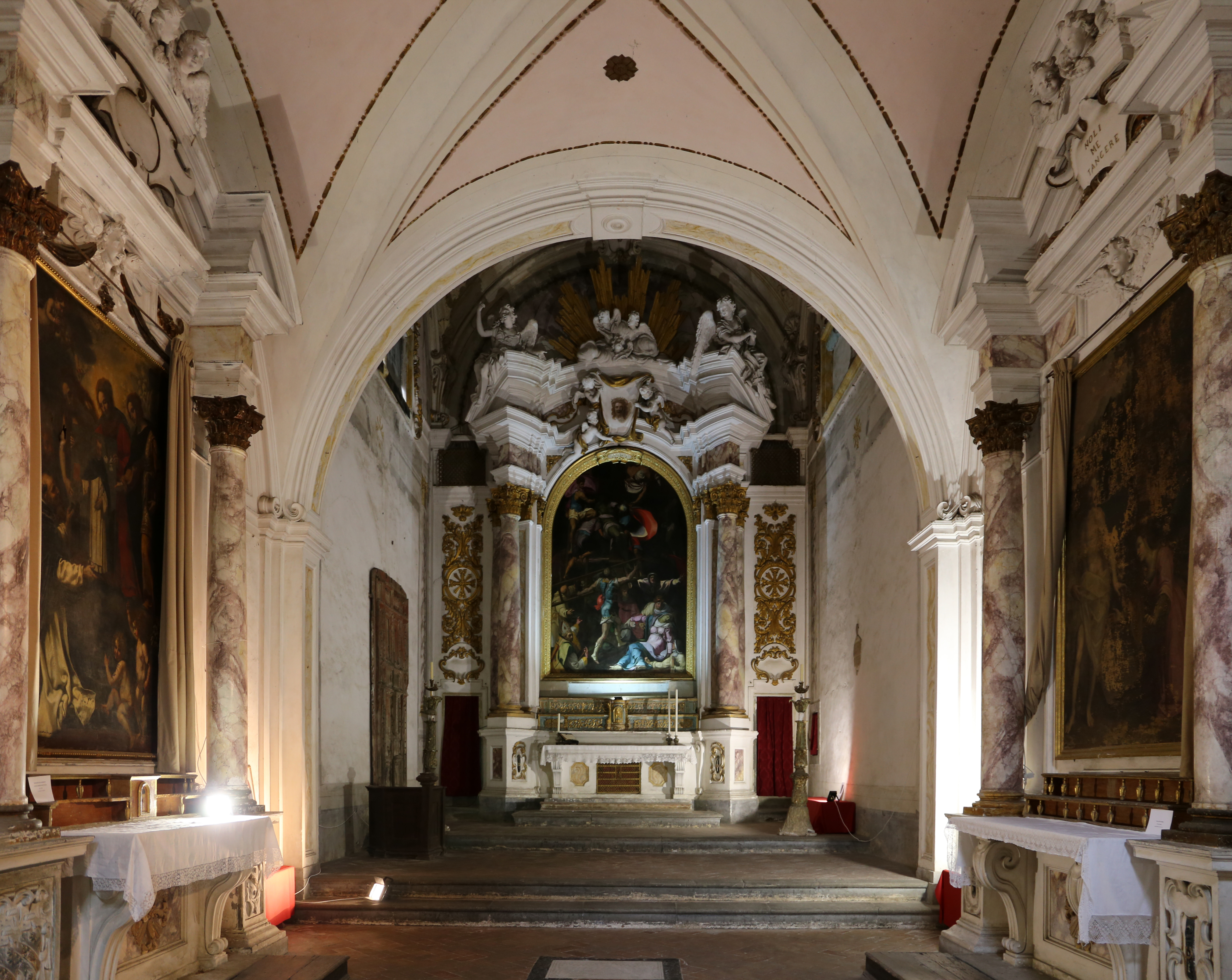 San Dalmazio (Volterra)